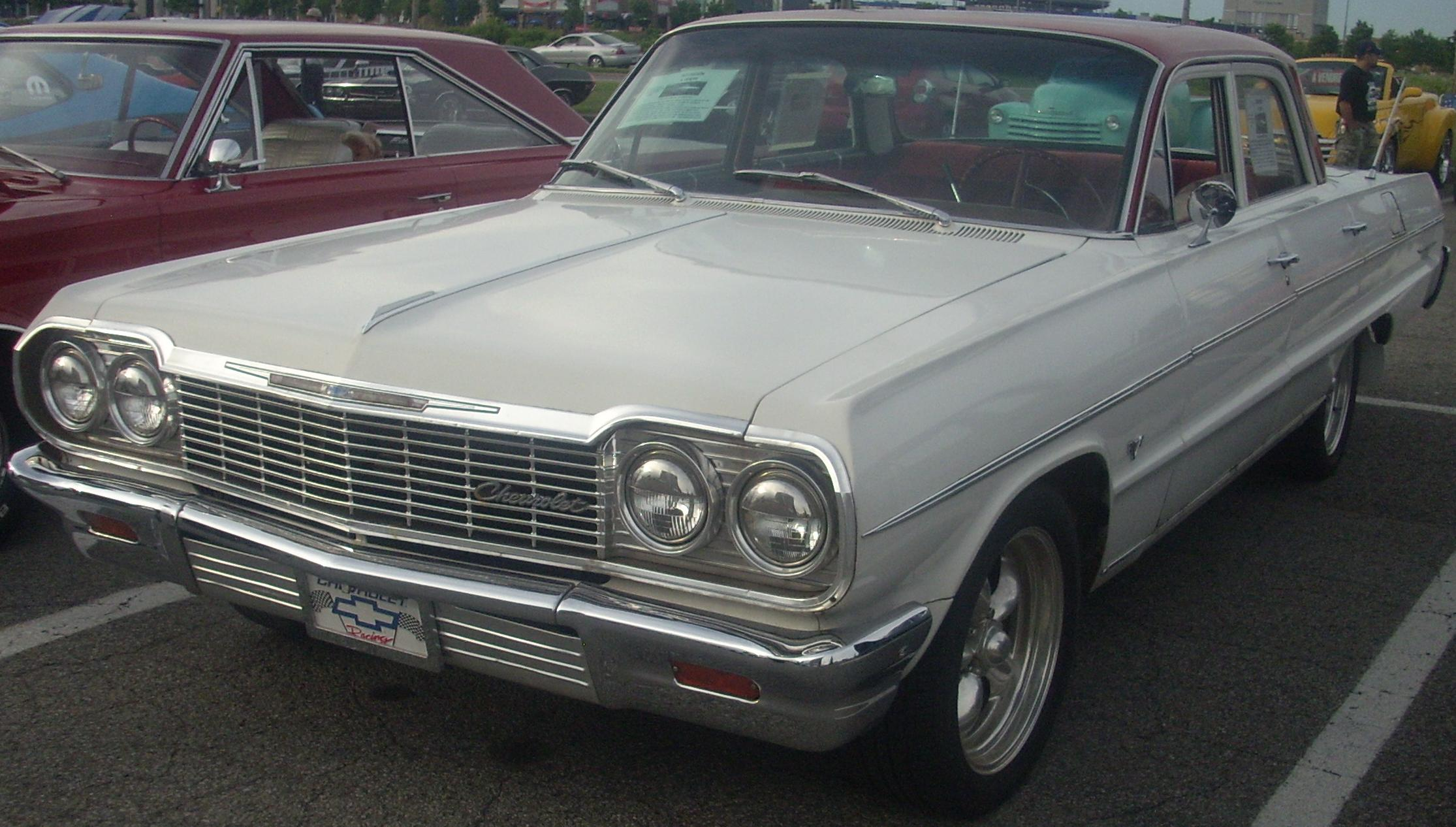 1964 Chevrolet Bel Air photographed in Laval, Quebec, Canada at Les chauds vendredis 2010.